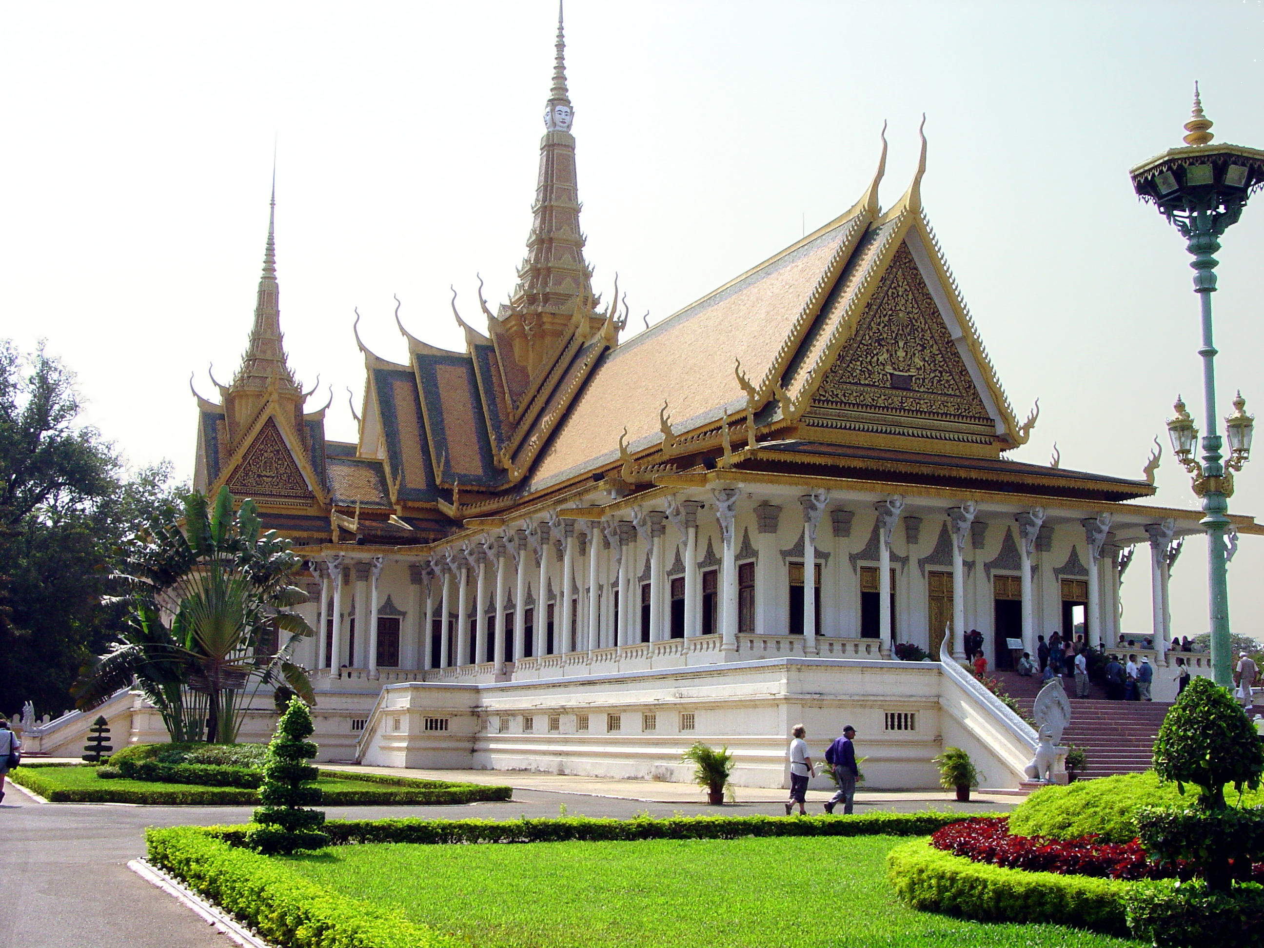 Throne Hall of the Royal Palace in Phnom Penh, Cambodia. The present structure was built in 1919. Imitating the face towers at Angkor, four faces overlook the complex from the main spire high above the roof, whose eaves are braced by flying celestials.